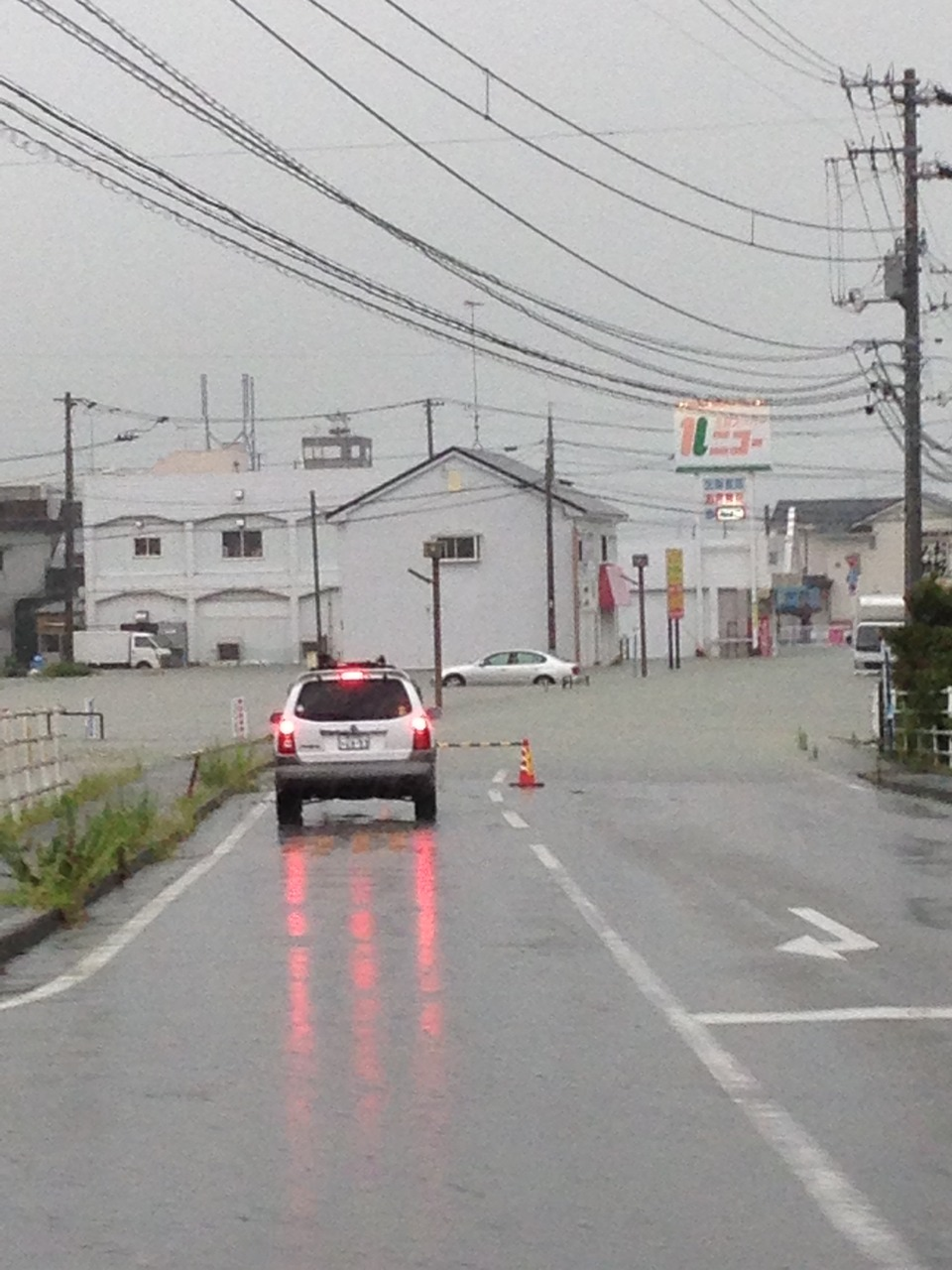 State of Tokushima Prefecture Anan city by torrential rains of August 2, 2014